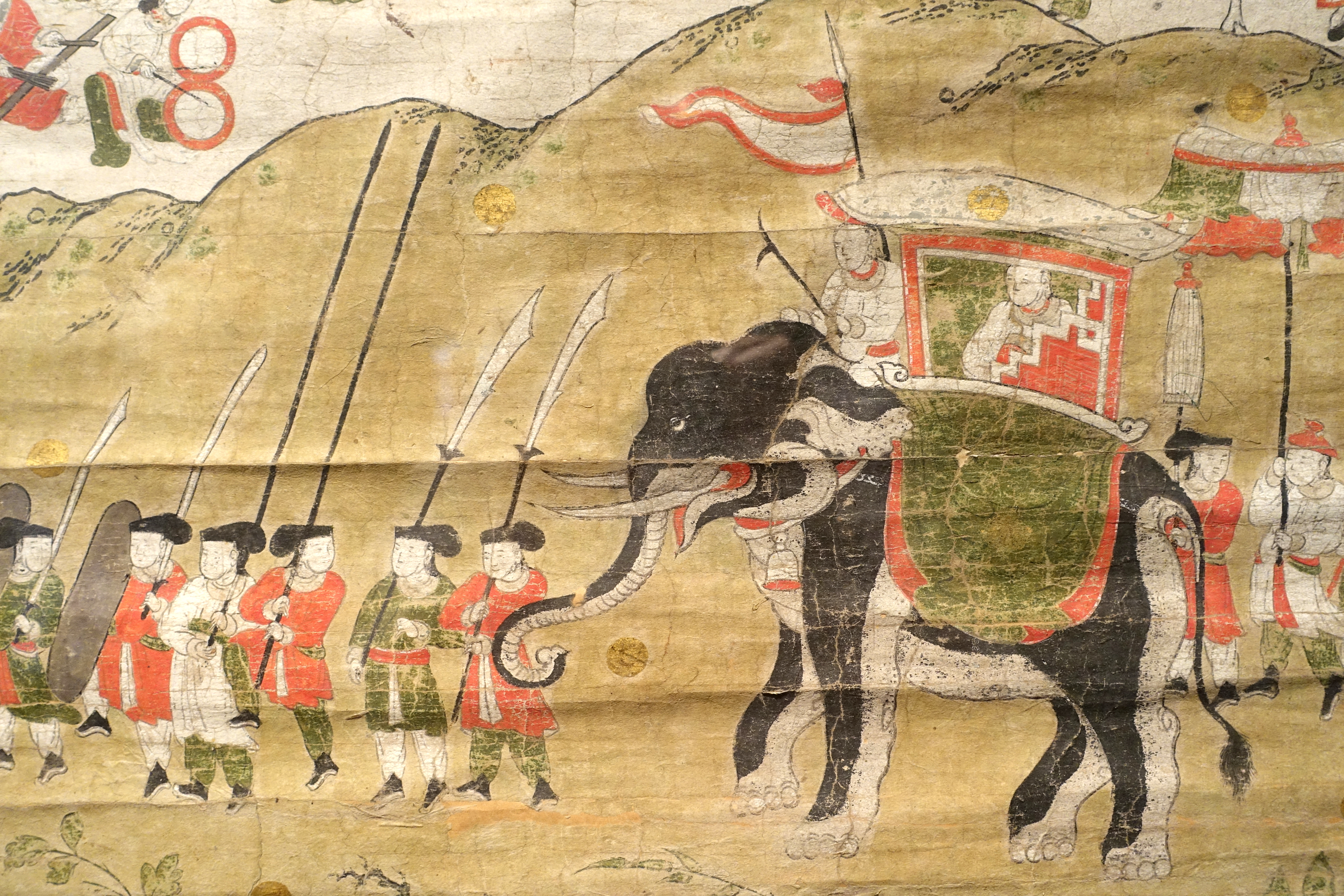 Exhibit in the Vietnam National Museum of Fine Arts - Hanoi, Vietnam. This artwork is old enough so that it is in the public domain.